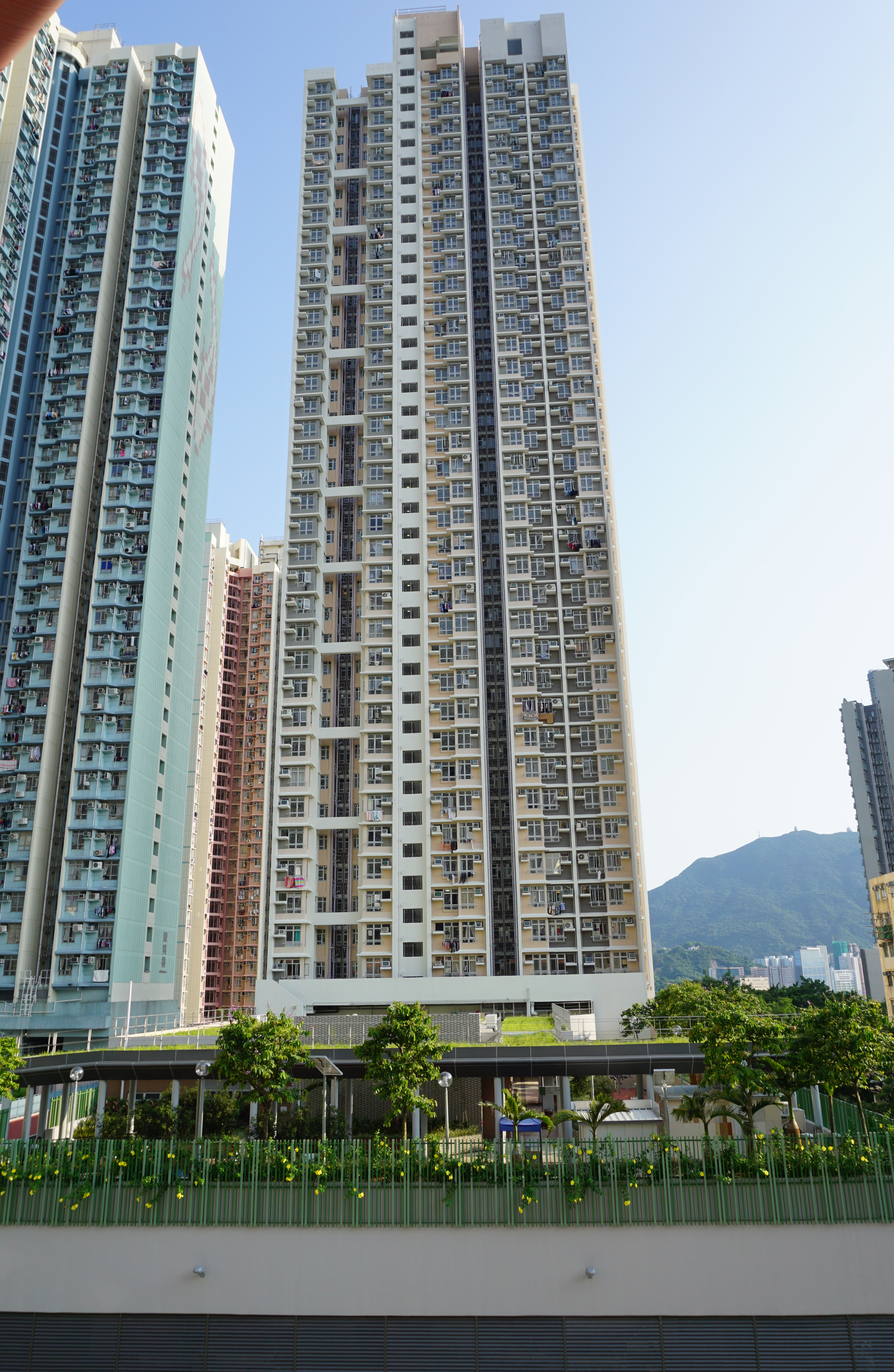 Lei Wong House in Yau Tong, Hong Kong.